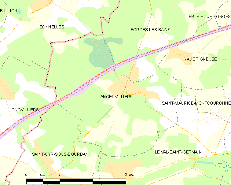 Map of French municipality Angervilliers